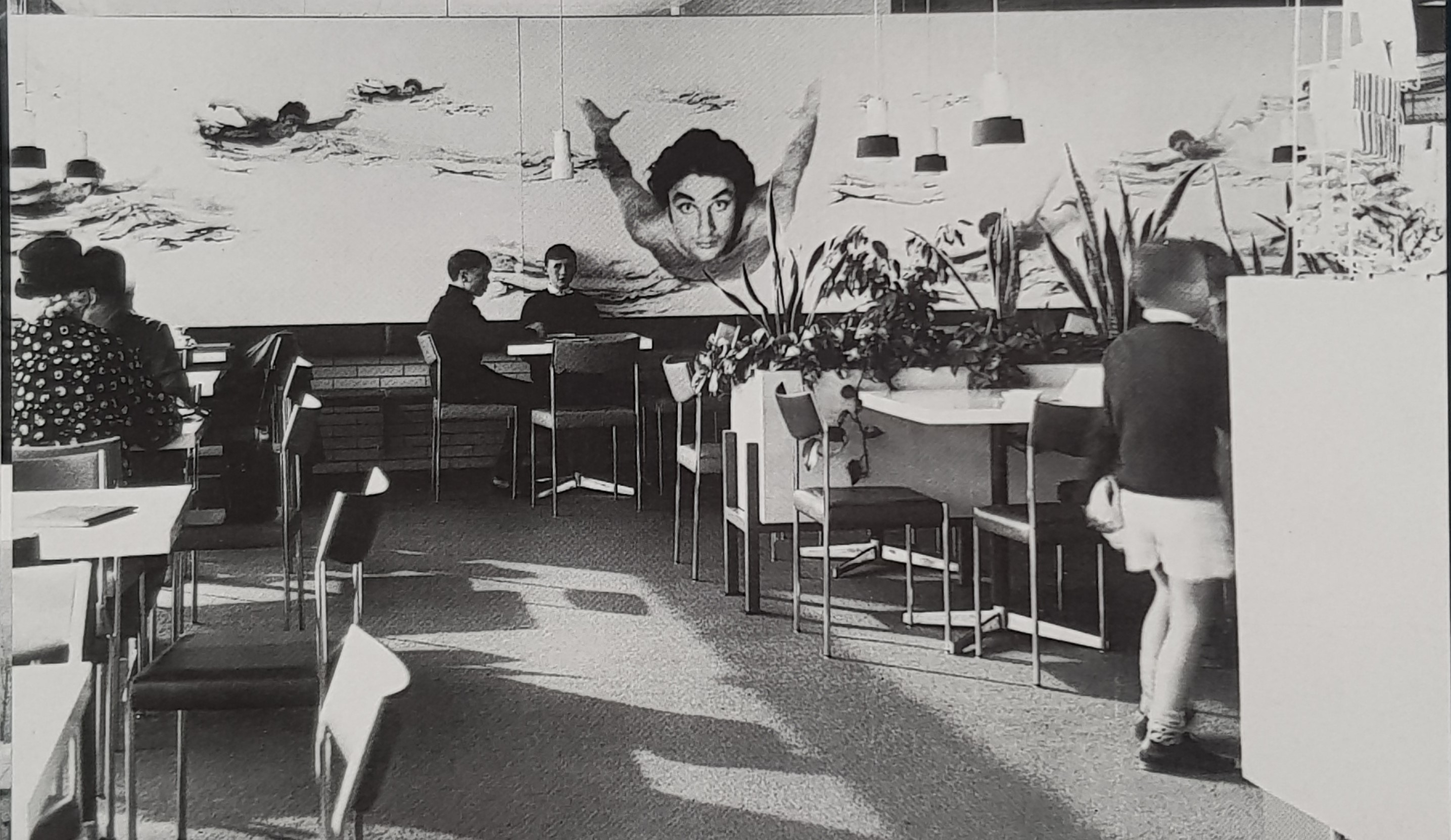 Ehemalige Milchbar im Café des Marler Hallenbads